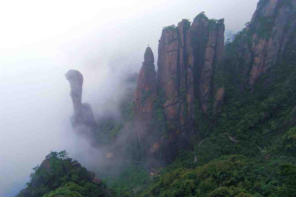 The rock like a snake